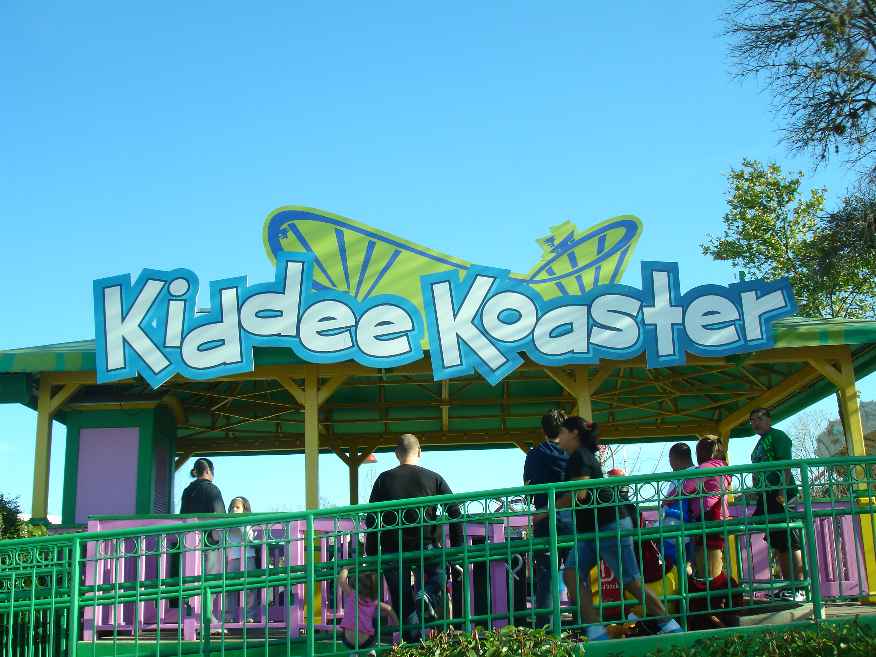 The new Kidzopolis sign at Fiesta Texas on Opening Day 2011 (March 5th, 2011). You can see my trip report on